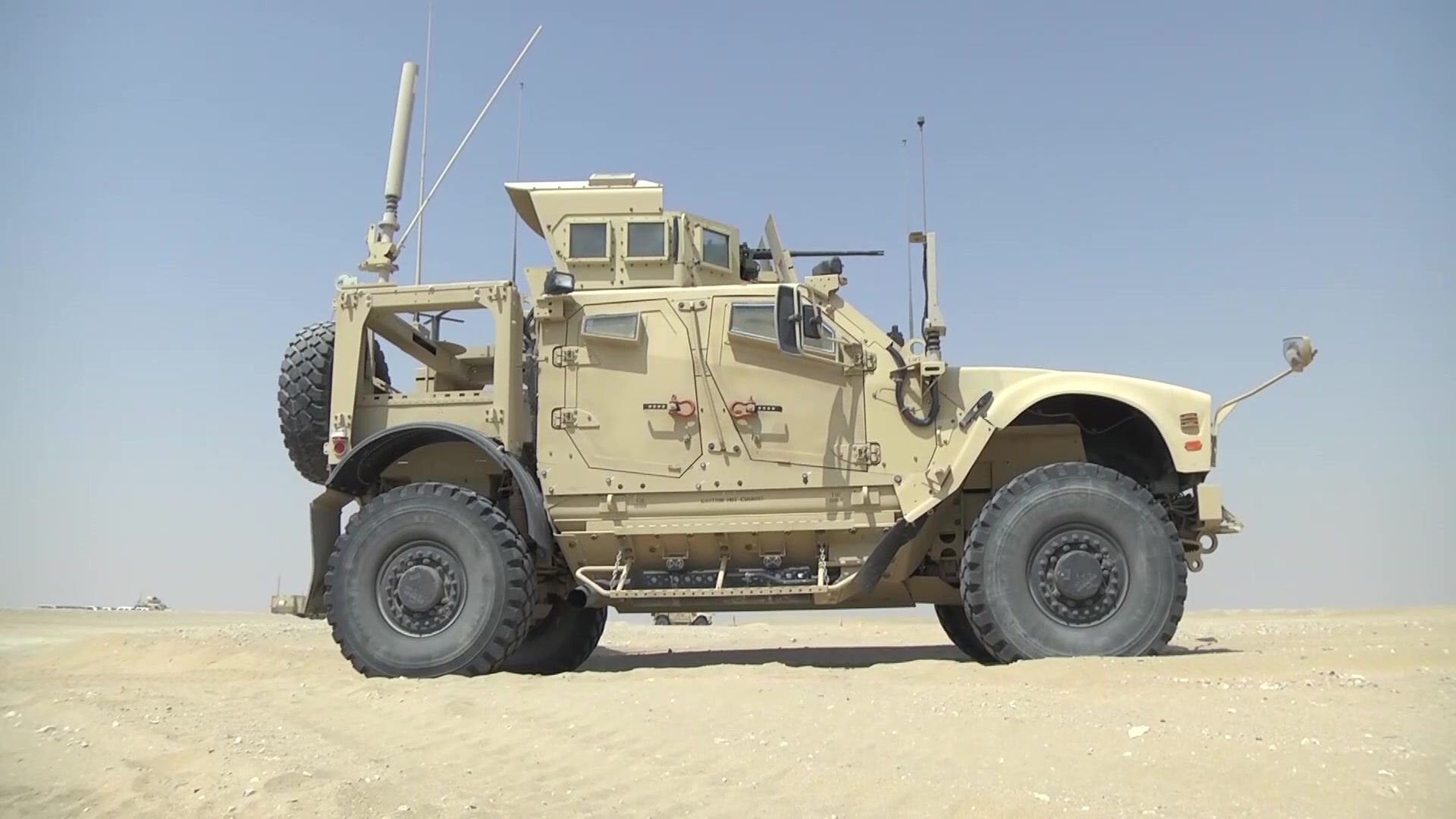 This is a picture taken of a M-ATV in a live fire exercise in Camp Buehring, Kuwait. It is part of the 548th Transportation Company Convoy and the 371st Sustainment Brigade of the 7th Air Force.